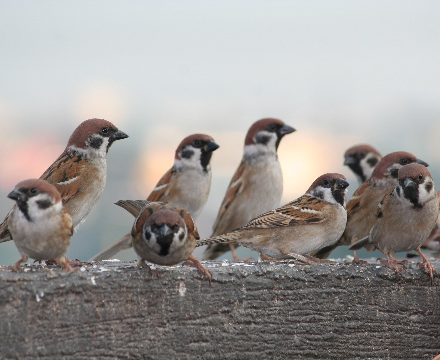 A flock of Eurasian Tree Sparrows in Russia.